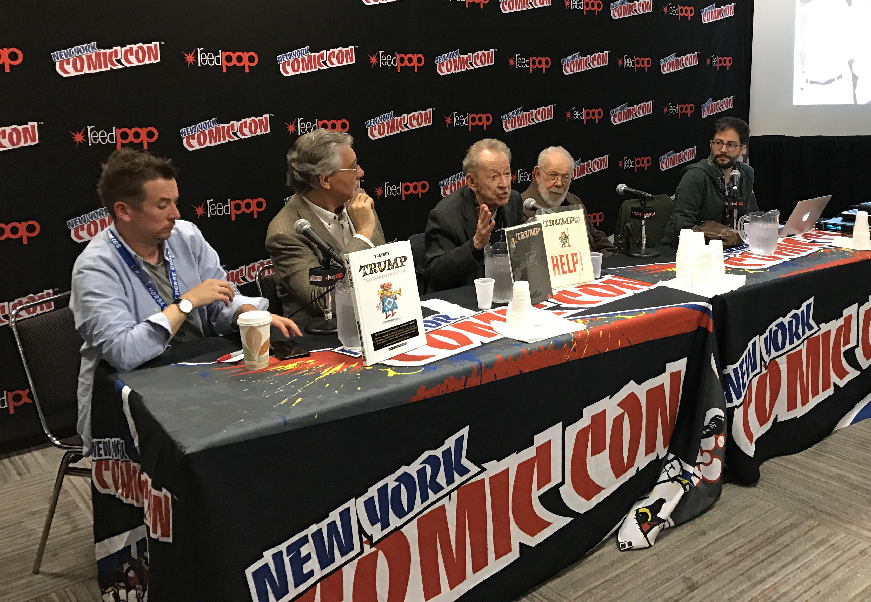 Discussion panel dedicated to Trump magazine on Sunday, October 9, 2016 at the Jacob K. Javits Convention Center in Manhattan, Day 4 of the 2016 New York Comic Con. From left to right: John Lind, Denis Kitchen, Arnold Roth, Al Jaffee and moderator Bill Kartapoulos.. This photo was created by Luigi Novi. It is not in the public domain, and use of this file outside of the licensing terms is a copyright violation.